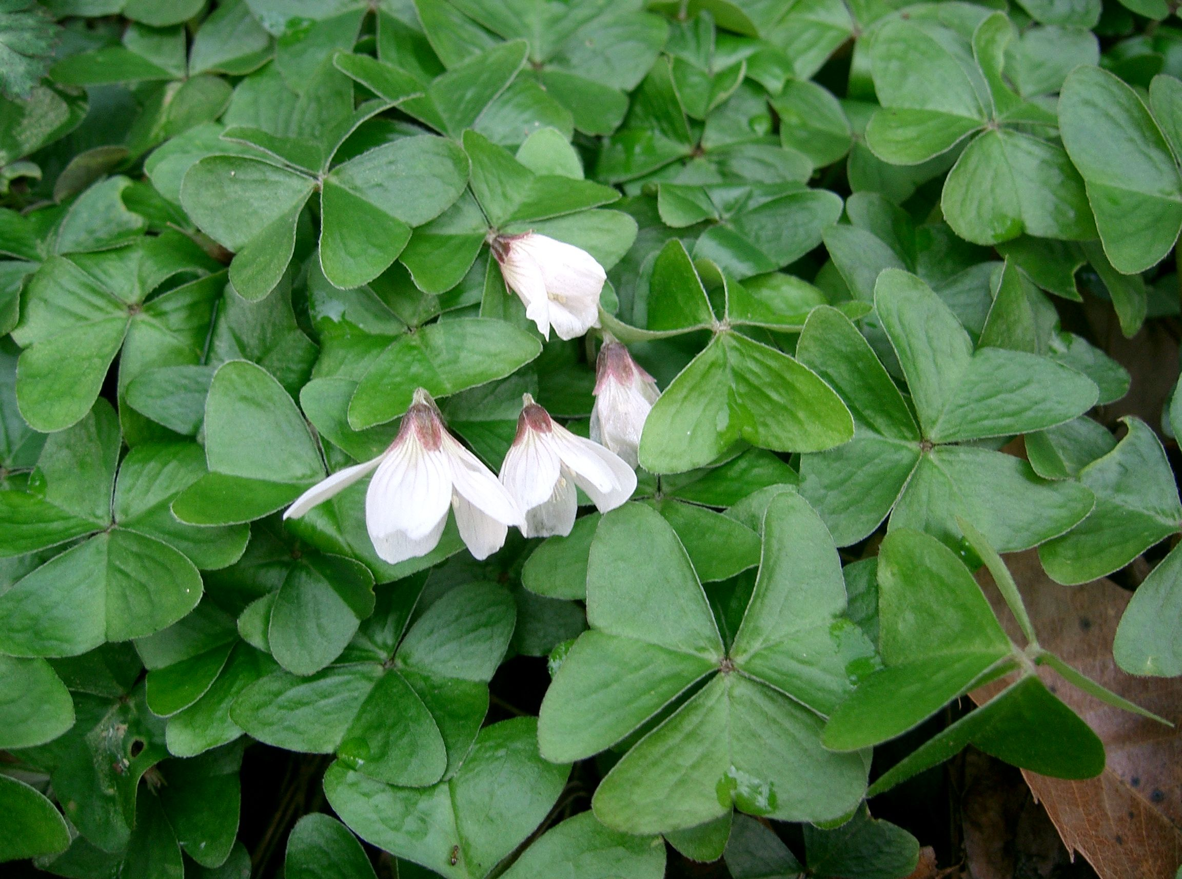 Oxalis griffithii